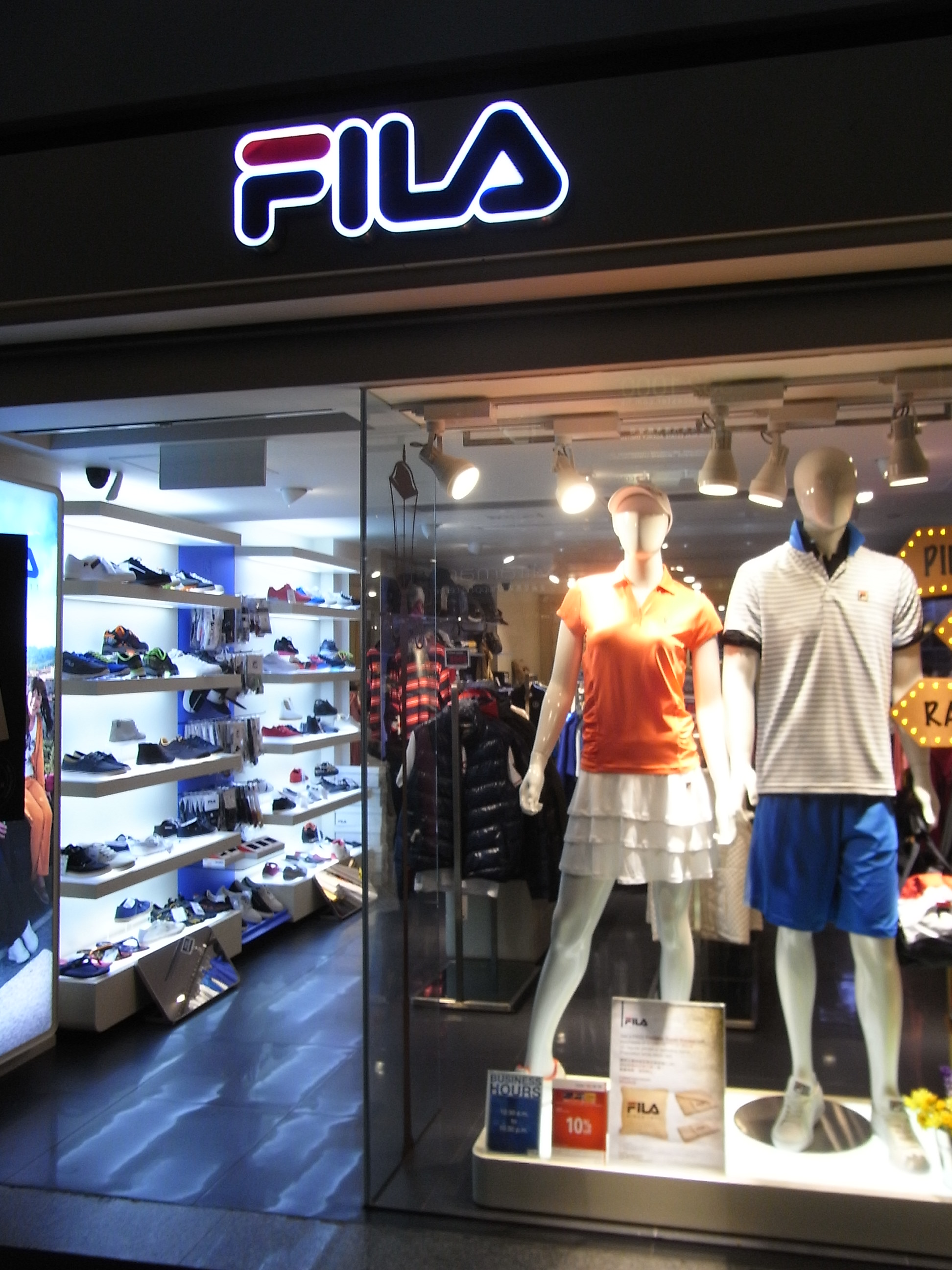 九龍尖沙咀彌敦道 柏麗購物大道, Parklane Avenue, Nathan Road, Tsim Sha Tsui, Hong Kong